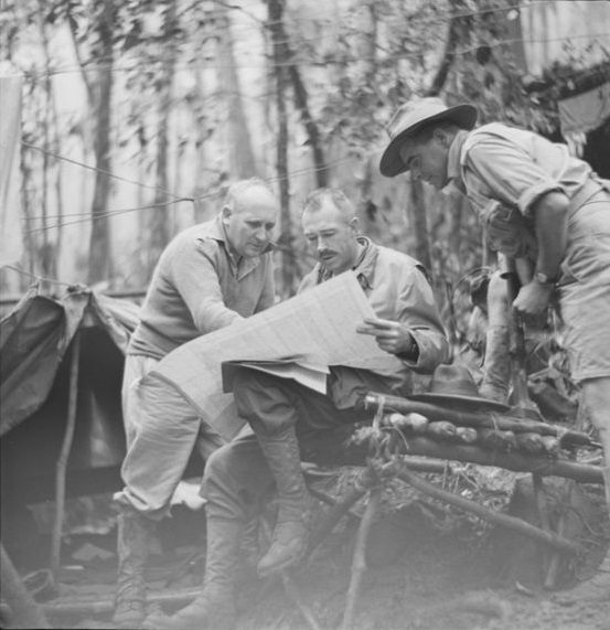 MAJOR-GENERAL A.S. ALLEN, CB., CBE., DSO., VD., GENERAL-OFFICER-COMMANDING 7TH AUSTRALIAN DIVISION (LEFT) AND BRIGADIER K.W. EATHER, COMMANDING 25TH AUSTRALIAN INFANTRY BRIGADE, (CENTRE). THEY WERE PHOTOGRAPHED IN THE DEEP JUNGLE AT A FORWARD POSITION DISCUSSING AN ATTACK THAT WAS TO BE MADE ON THE JAPANESE POSITIONS. THE THIRD FIGURE IS NX77383 LIEUTENANT DALRYMPLE DISNEY HARRIS (DAL) FAYLE, THE AIDE-DE-CAMP TO GENERAL ALLEN.